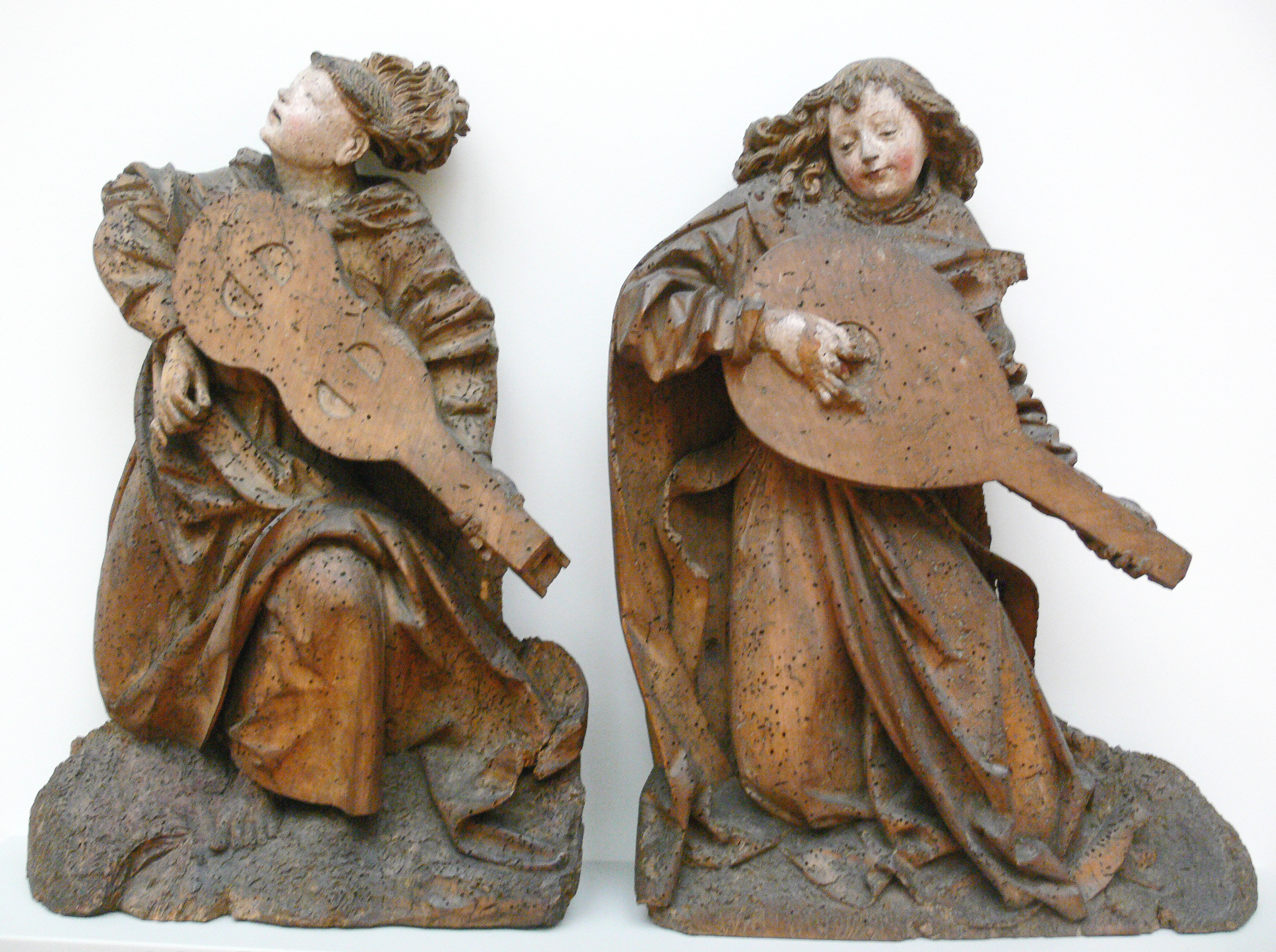 Angels playing viola and lute, Upper Rhine area, c. 1490; limewood, remains of old paint (the angel playing the lute is inspired by a copperplate print of Martin Schongauer)